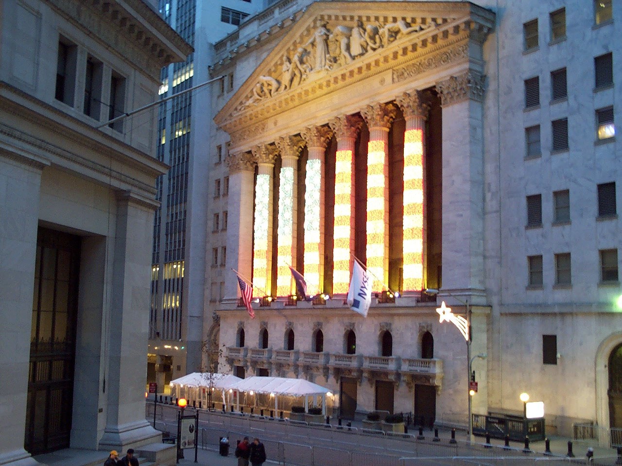 The New York Stock Exchange, photographed on January 12, 2002. Photographed by Luigi Novi. This photo is not in the public domain. It may, however, be used, modified and published for any purpose, free of charge, only if the photographer is properly credited, either by linking the photograph to this page, or with an easily visible credit to the photographer placed near the photo in each instance in which it is used. (See licensing information below.) Publication of this photo without this proper attribution constitutes copyright infringement. If you have any questions, you can contact me on my Wikipedia Talk Page.